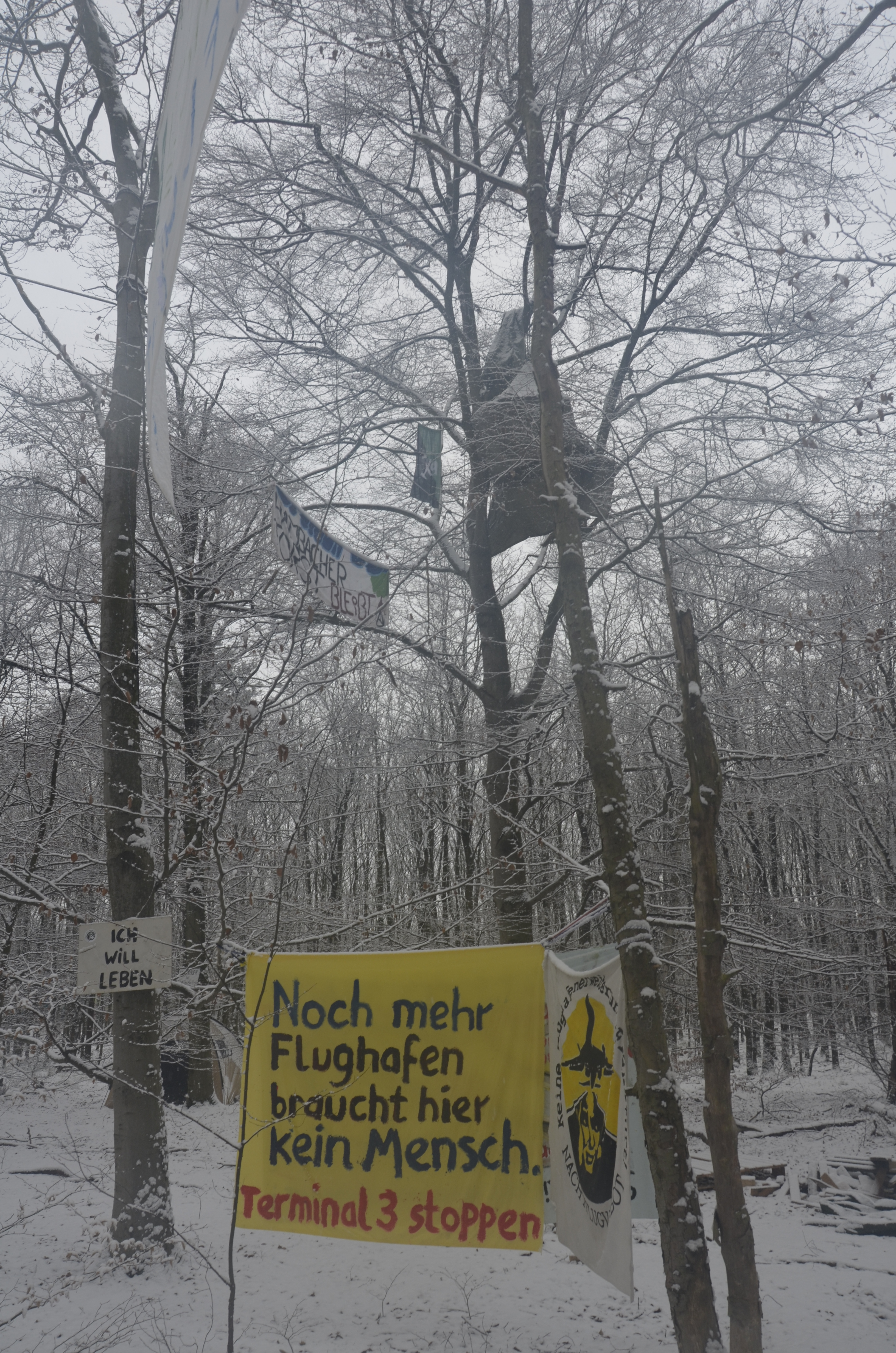 Tree sitting of the Trebur forest in January 2018 against the Expansion of Frankfurt Airport.